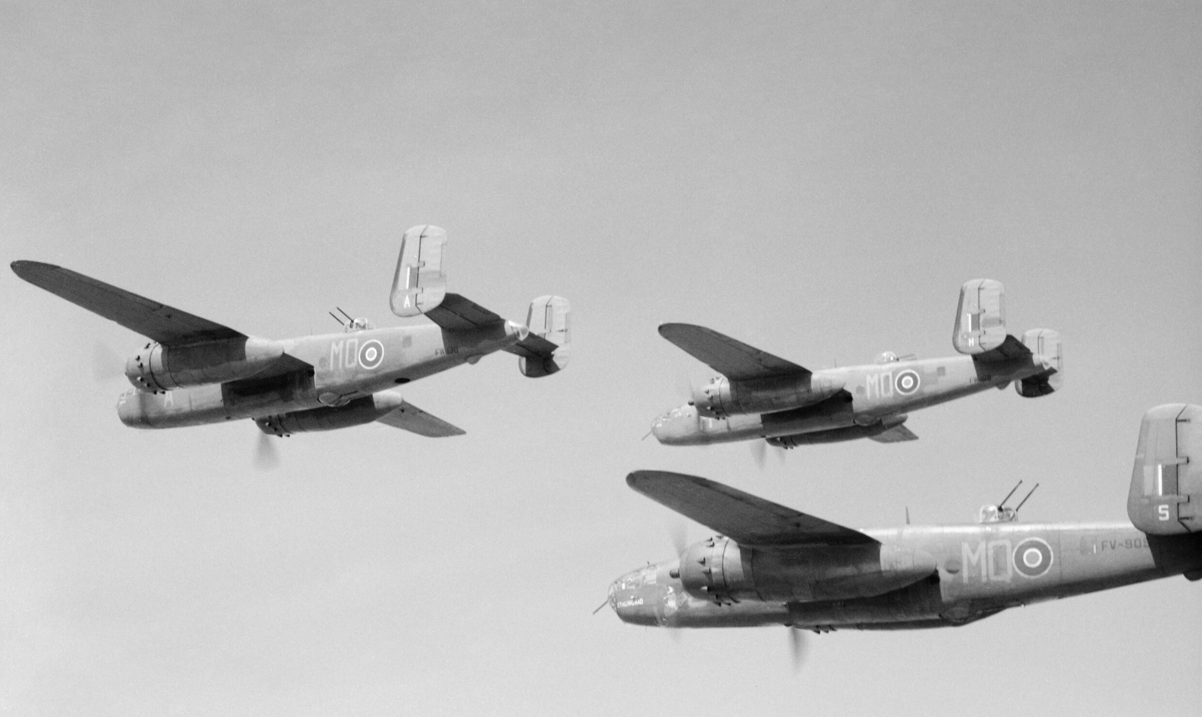 Royal Air Force- 2nd Tactical Air Force, 1943-1945. Three North American Mitchell Mark IIs, FV905 ‘MQ-S’ "Stalingrad", FW130 ‘MQ-A’ and FW128 ‘MQ-H’, of No. 226 Squadron RAF based at Hartford Bridge, Hampshire, about to bomb railway yards in northern France on the evening of 12 May 1944.